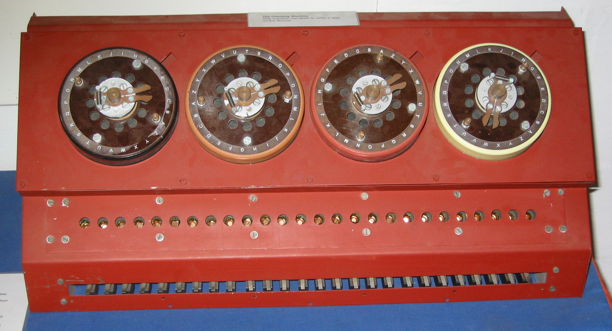 The Checking Machine (see label on top), Bletchley Park